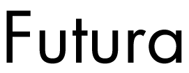 Name of the Futura typeface. 03:05, 31 March 2006 Chowbok 271x106 (5832 bytes) (Name of the :en:Futura typeface.)